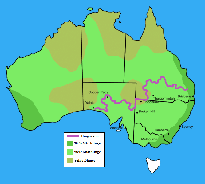 a possible distribution of dingo-hybrids, german translation